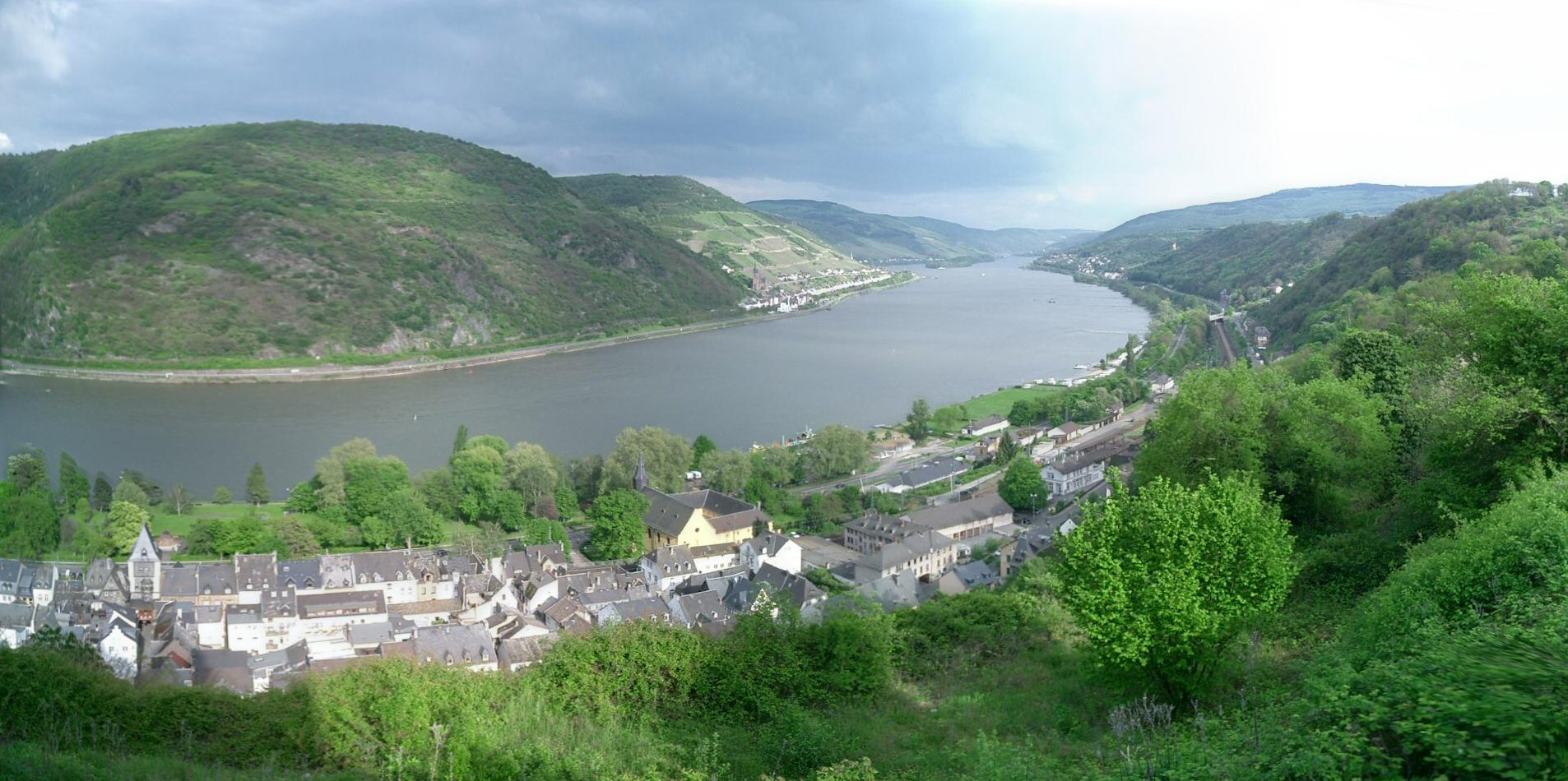 View over Bacharach, Germany and the Rhine from Burg Stahleck (panorama)